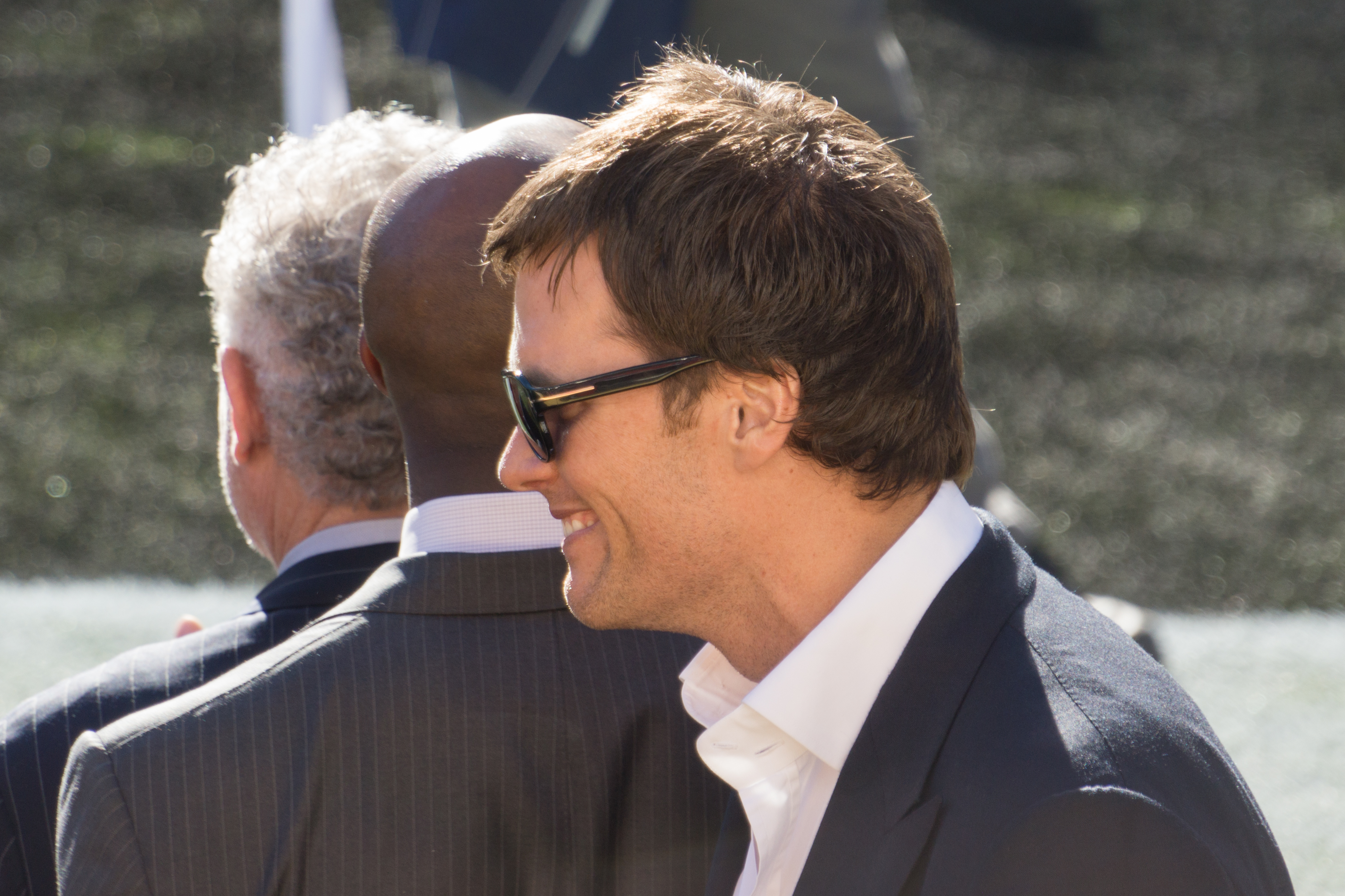 Super Bowl 50